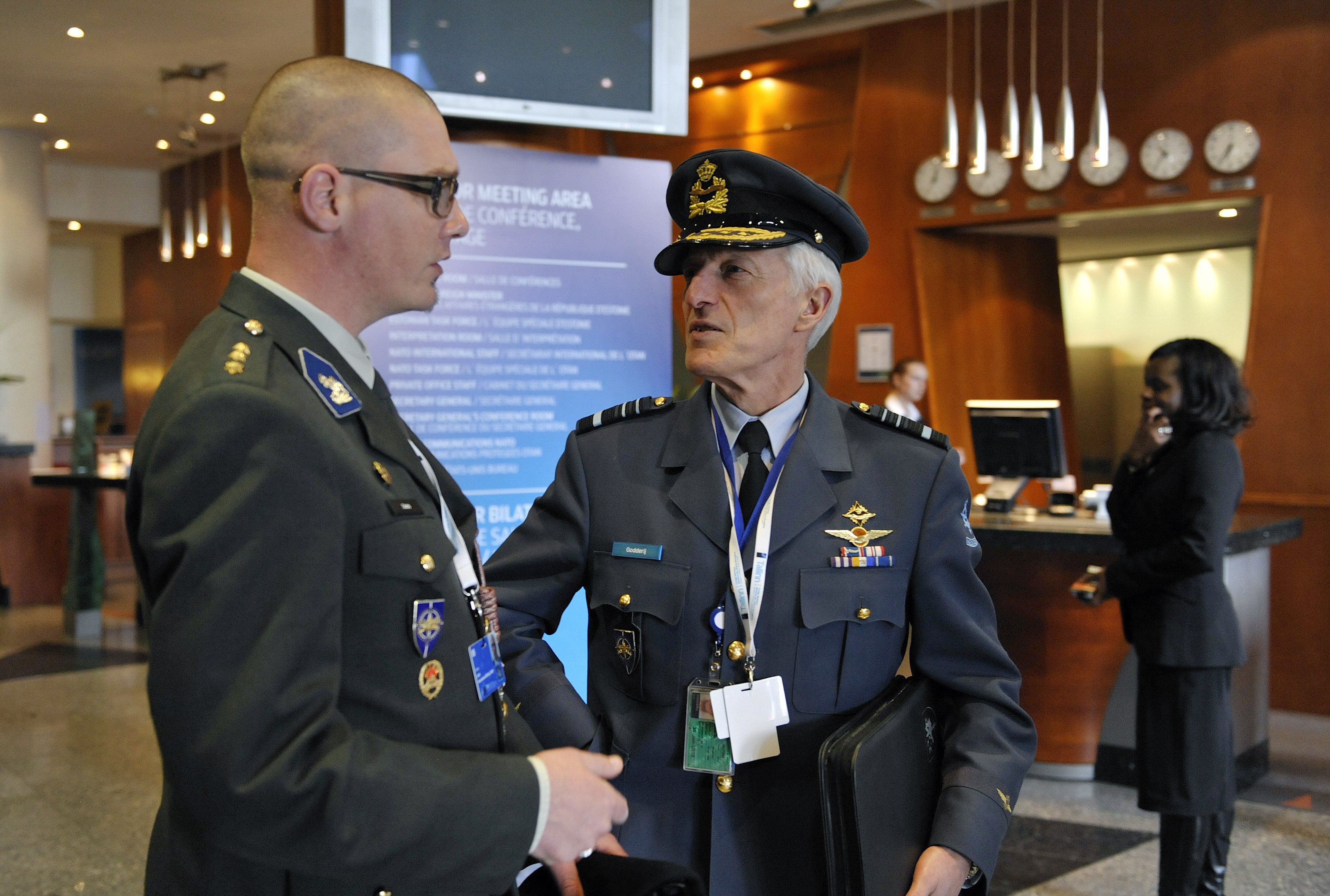 Military personell at the NATO foreign ministers meeting in Tallinn